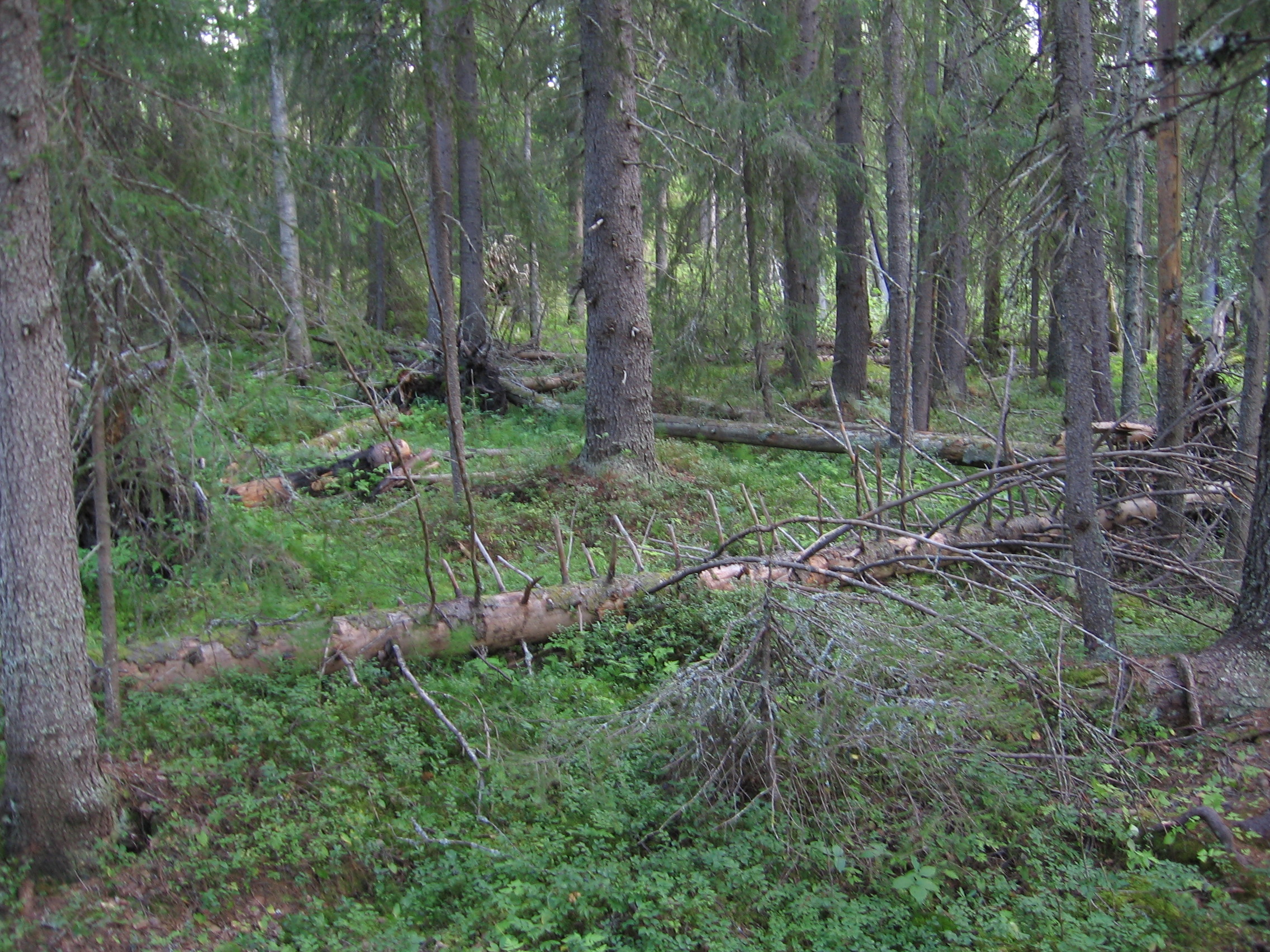 Tree trunks collapsed by Mauri storm (September 22th 1982). The picture is taken on "Mauri storm memorial" Ounasvaara hill (Rovaniemi, Lapland, Finland) in August 2014. At this location the Mauri storm collapsed 181 trees on an area less than one hectare.